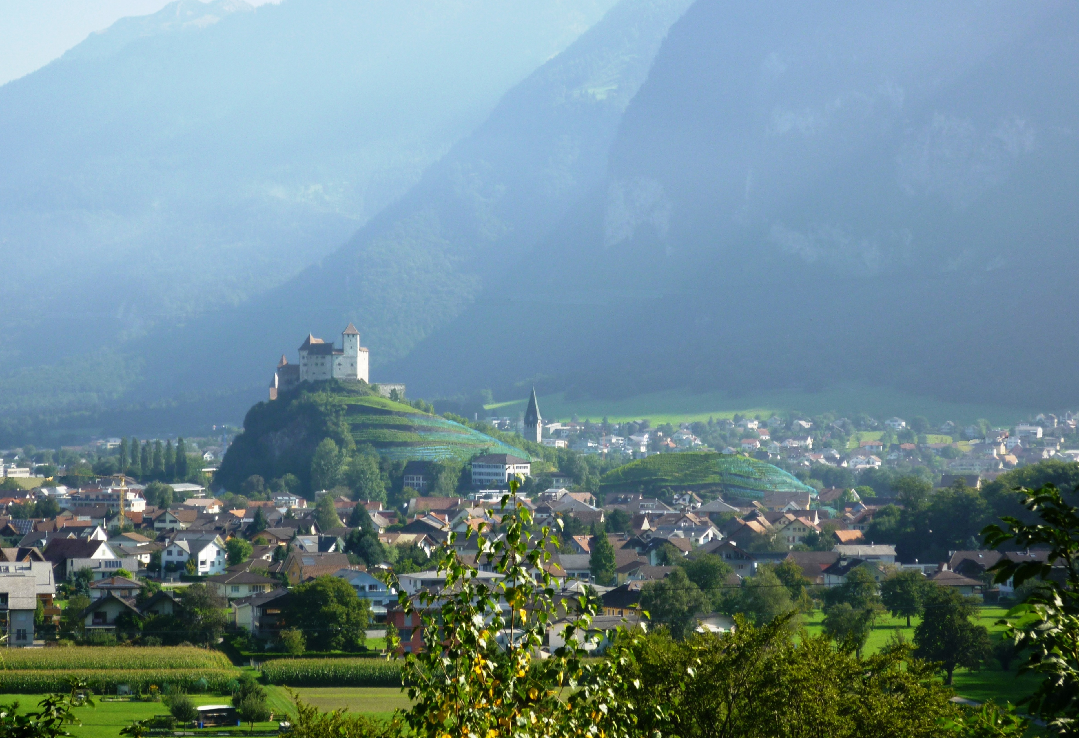 View to the castle Gutenberg in Balzers, Liechtenstein (parts of a power line retouched).